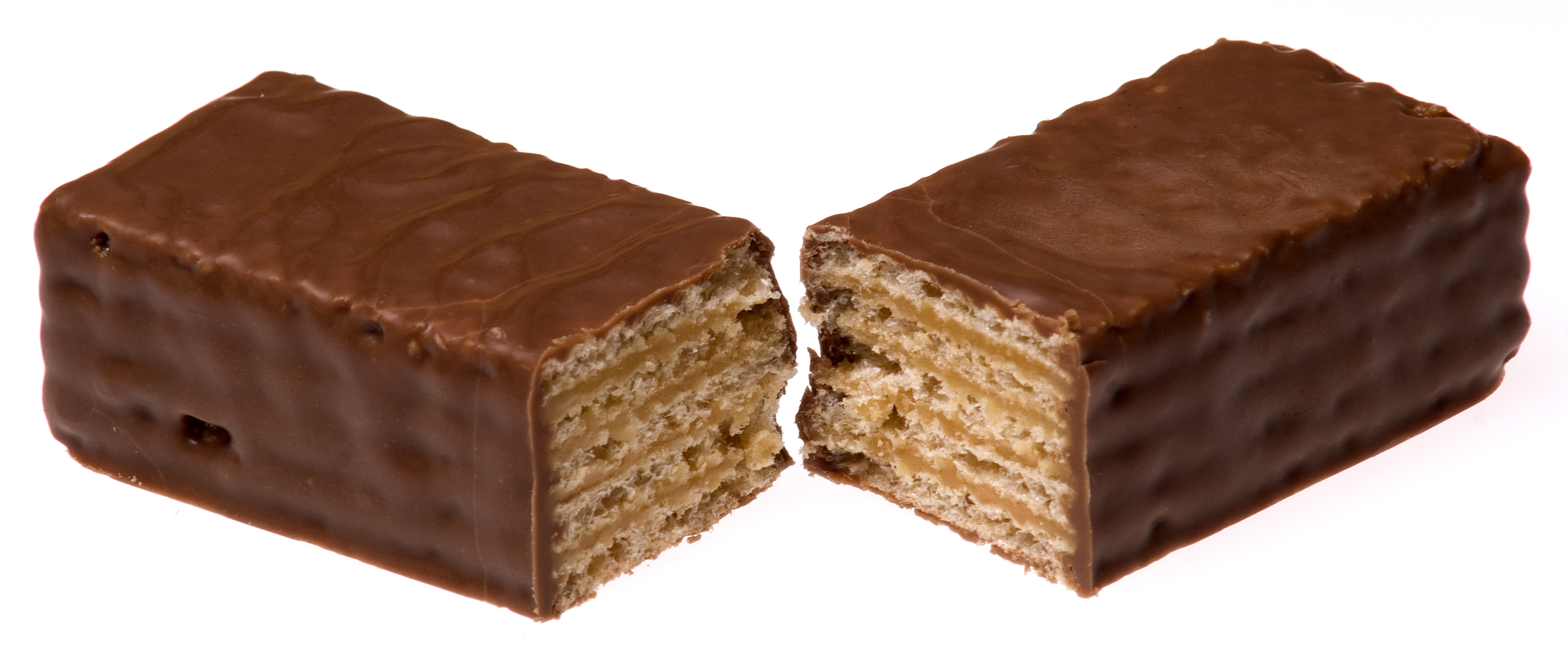 Tunnock's Caramel Wafer candy bar that has been split in half.